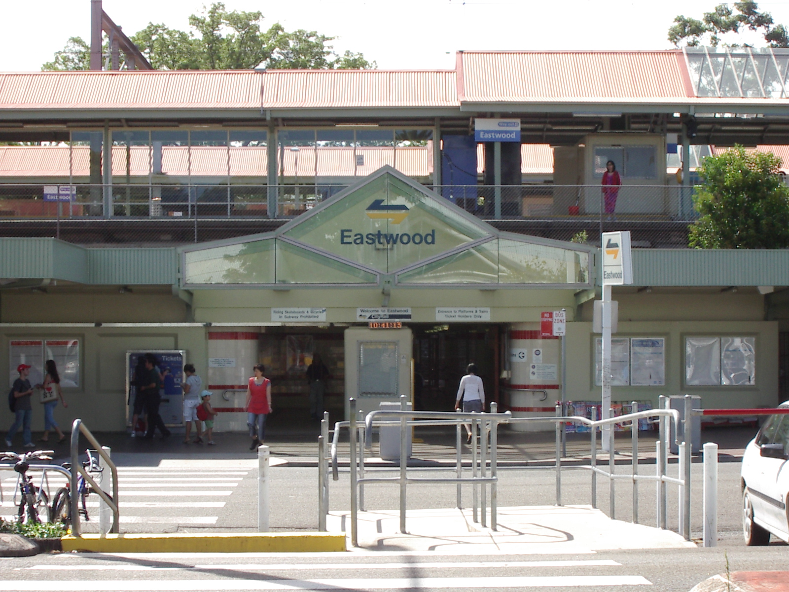 Eastwood station Sydney